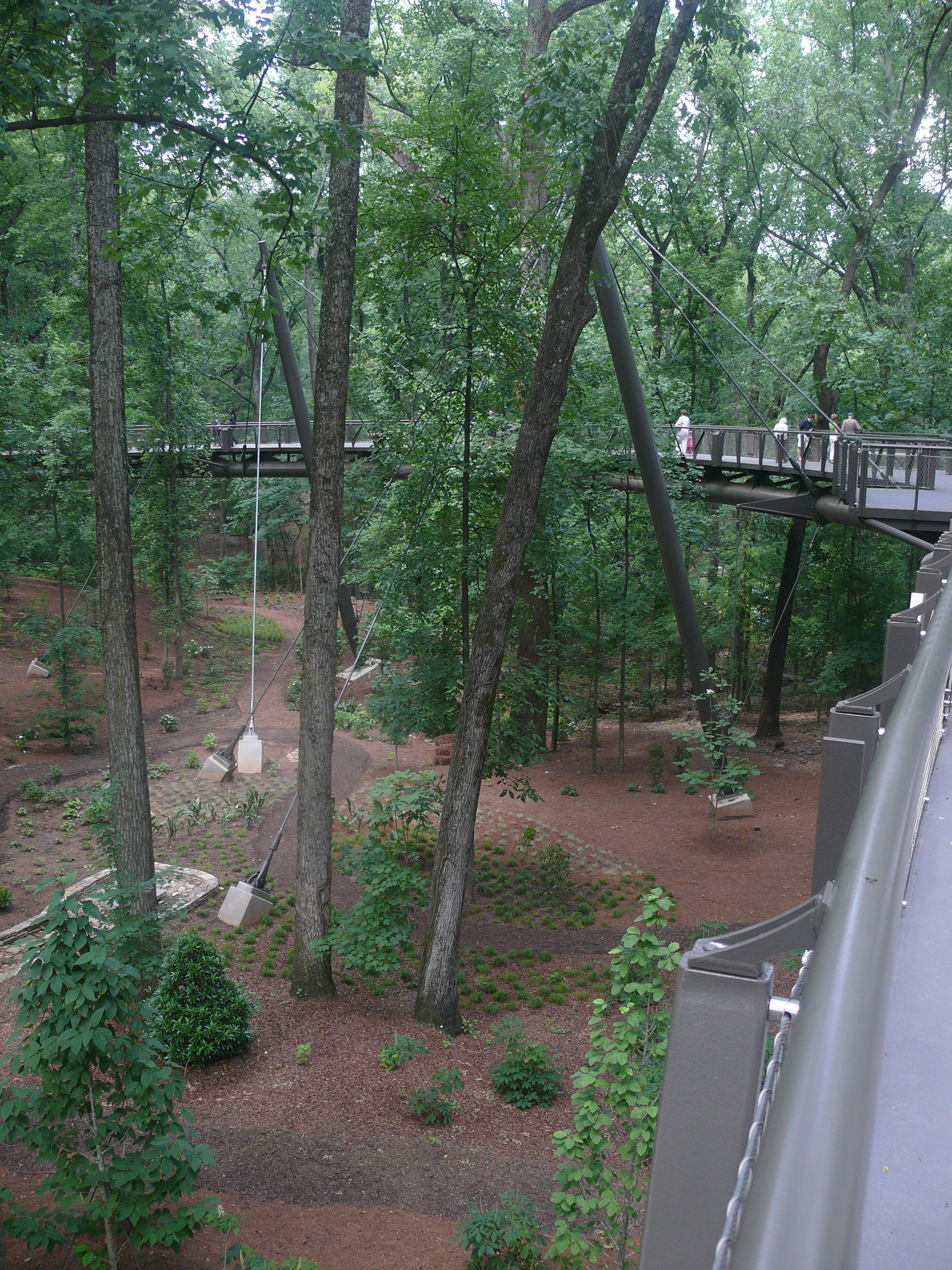 Kendeda Canopy Walk in the Atlanta Botanical Garden.